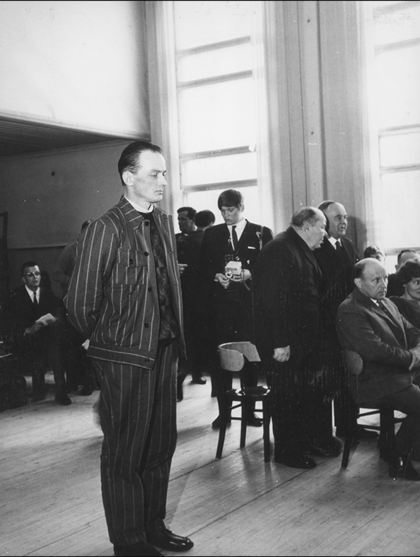 Photograph of the Finnish murderer Tauno Pasanen (1934–) in Pihtipudas municipal court.